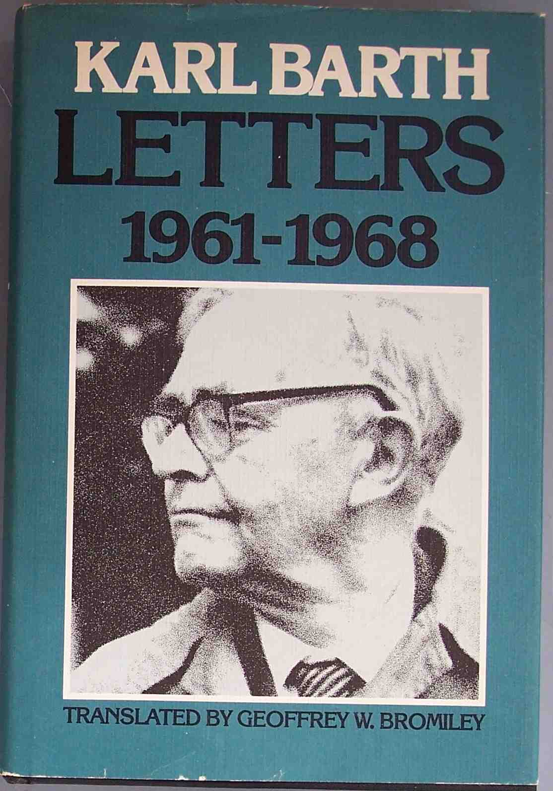 covershot